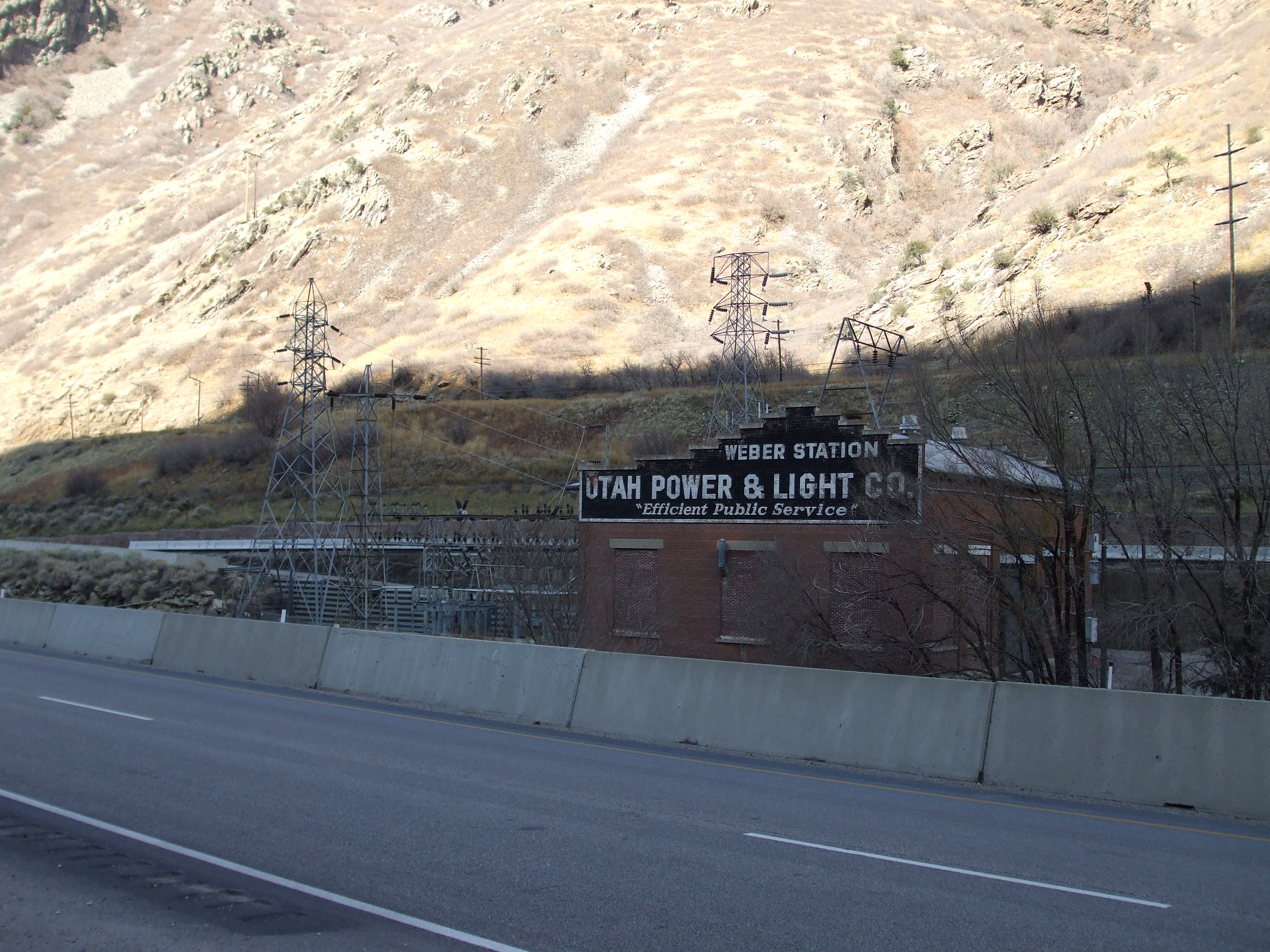 The historic Weber Power Plant, one of two non-contiguous components of the Devil's Gate–Weber Hydroelectric Power Plant Historic District located in Weber Canyon, Utah, United States.